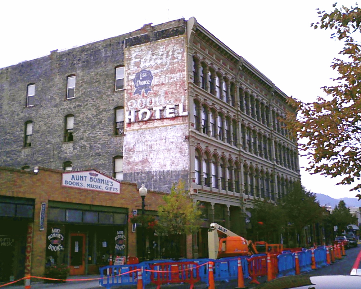 Ghost sign for Eddy's Bread, before 2012 restoration. Iron Front Hotel, 415 N. Last Chance Gulch, Helena, Montana